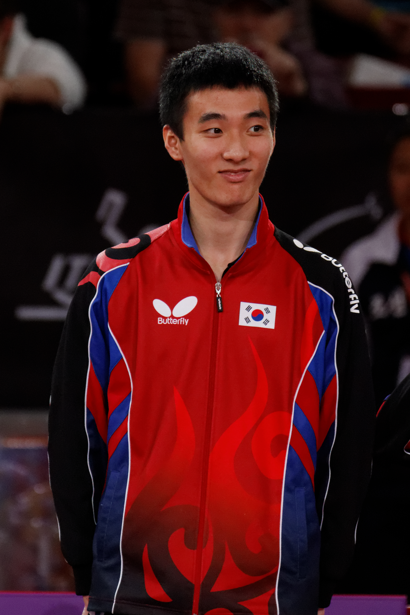 2013 World Table Tennis Championships, Paris. Mixed Doubles Final. Lee Sang-Su and Park Young-Sook vs Kim Hyok-Bong and Kim Jong.